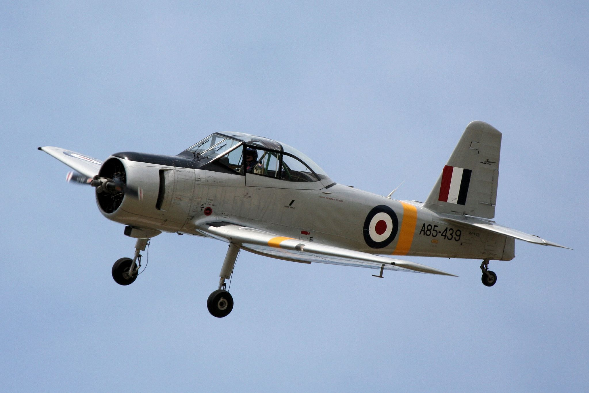 A85-139 CAC Winjeel which is located at at the RAAF Museum, Point Cook, Victoria.